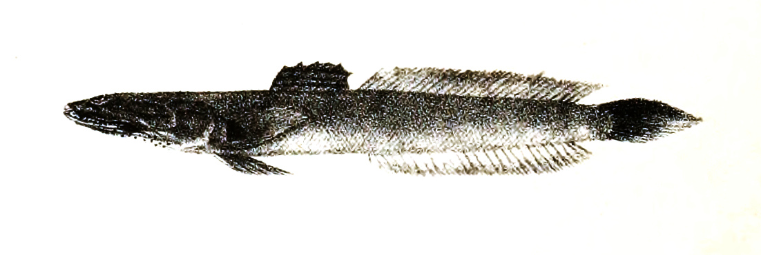 Oxuderces dentatus syn. Apocryptichthys cantorisThe species names / identity need verification. The original plates showed the fishes facing right and have been flipped here. Apocryptichtys cantori